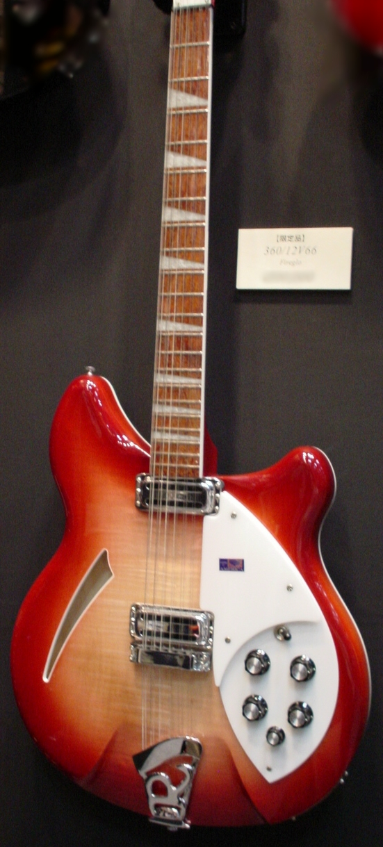 Rickenbacker 360/12V66 (Limited Release) in Instrument Show(2003.10.25 Pacifico Yokohama, Japan) Author: Photo by CasinoKat